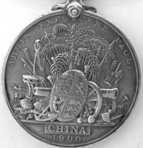 Third China War Medal 1900 reverse